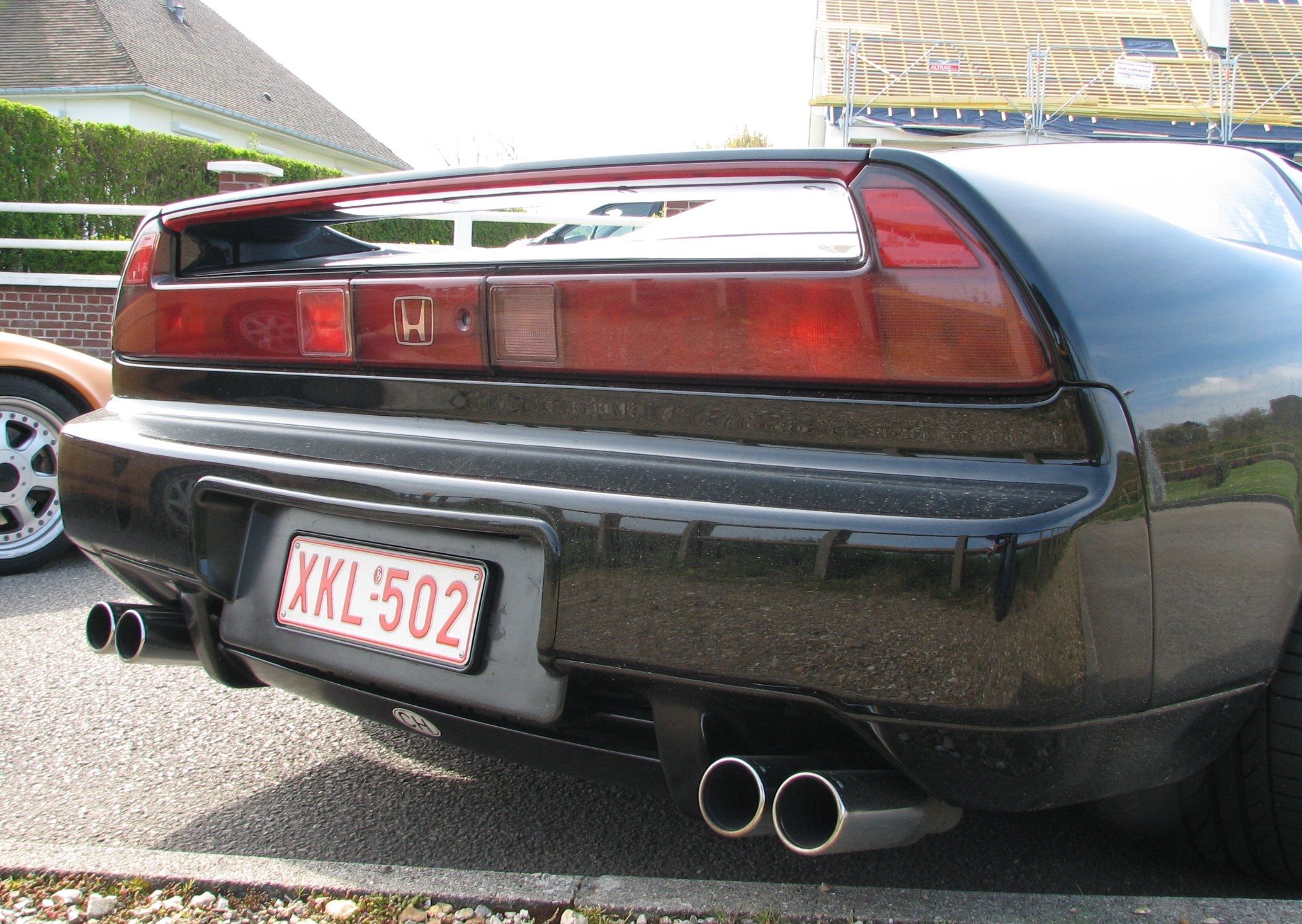 Honda NSX - two double-exhausts